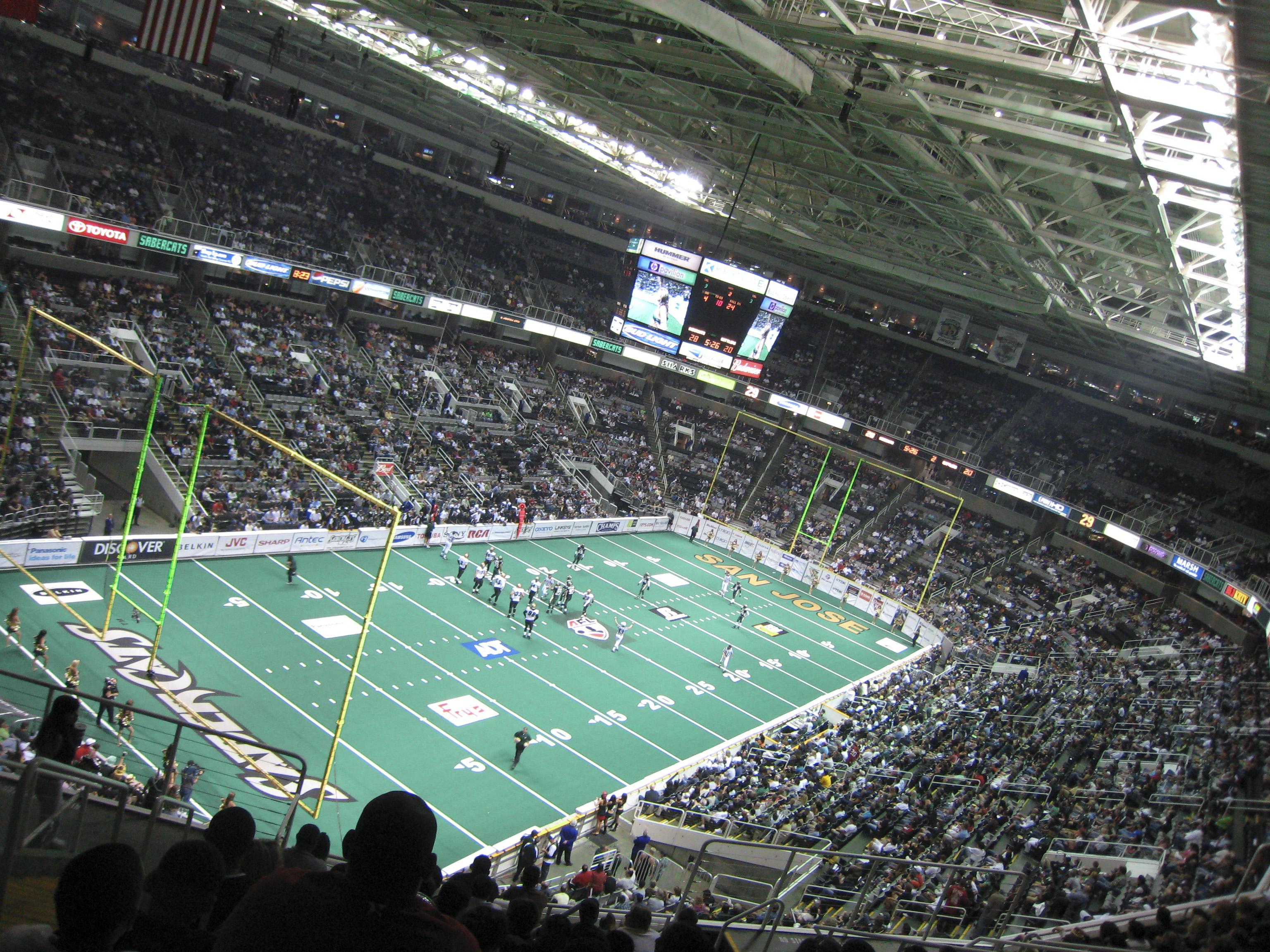 HP Pavilion San Jose, CA